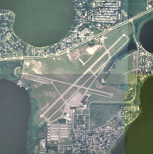 USGS digital orthophoto of Winter Haven Municipal Airport in Florida